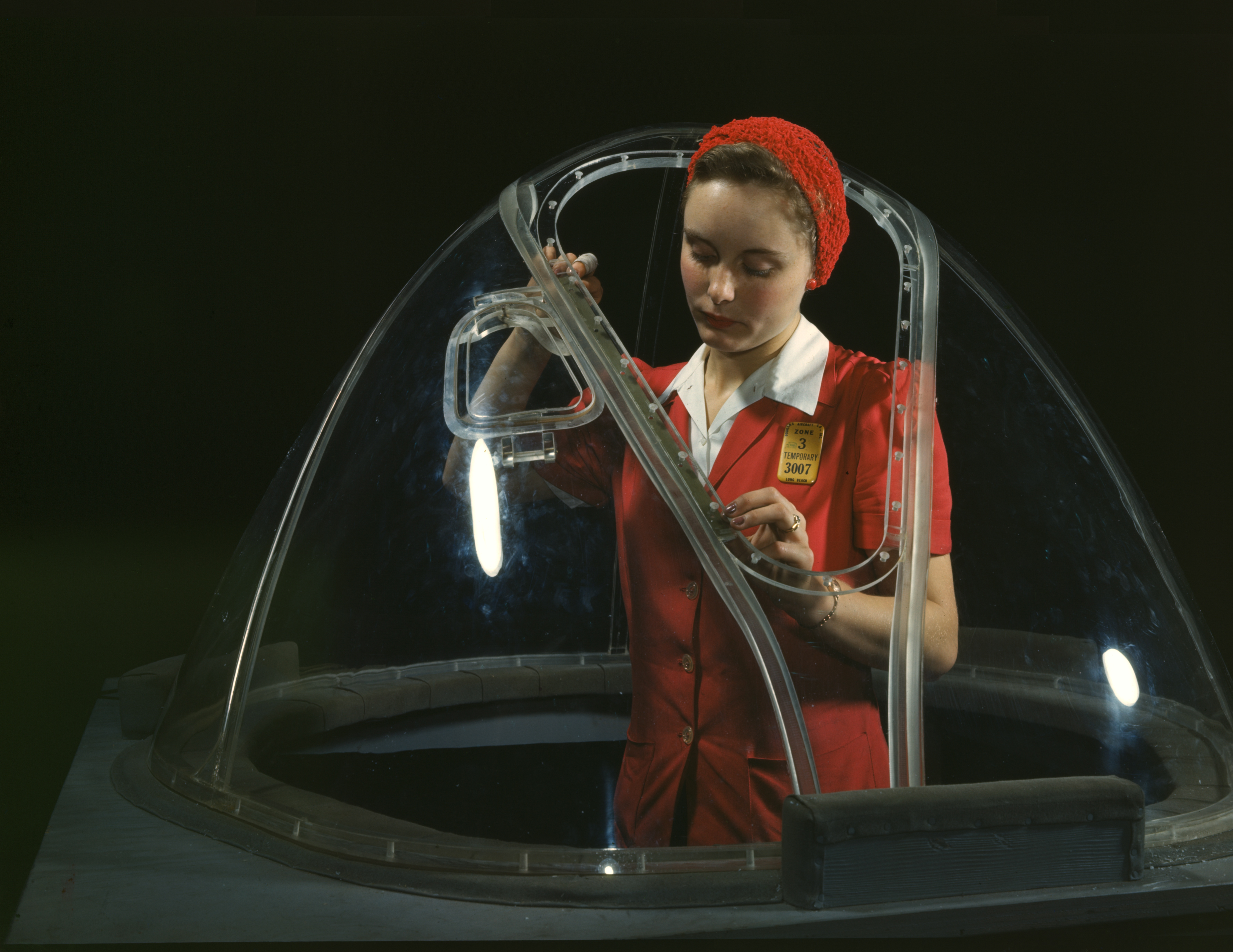 Alfred T. Palmer : Woman worker in the Douglas Aircraft Company plant (Oct 1942). This girl in a glass house is putting finishing touches on the bombardier nose section of a B-17F navy bomber, Long Beach, Calif. She's one of many capable women workers in the Douglas Aircraft Company plant. Better known as the "Flying Fortress," the B-17F is a later model of the B-17 which distinguished itself in action in the South Pacific, over Germany and elsewhere. It is a long range, high altitude heavy bomber, with a crew of seven to nine men, and with armament sufficient to defend itself on daylight missions.